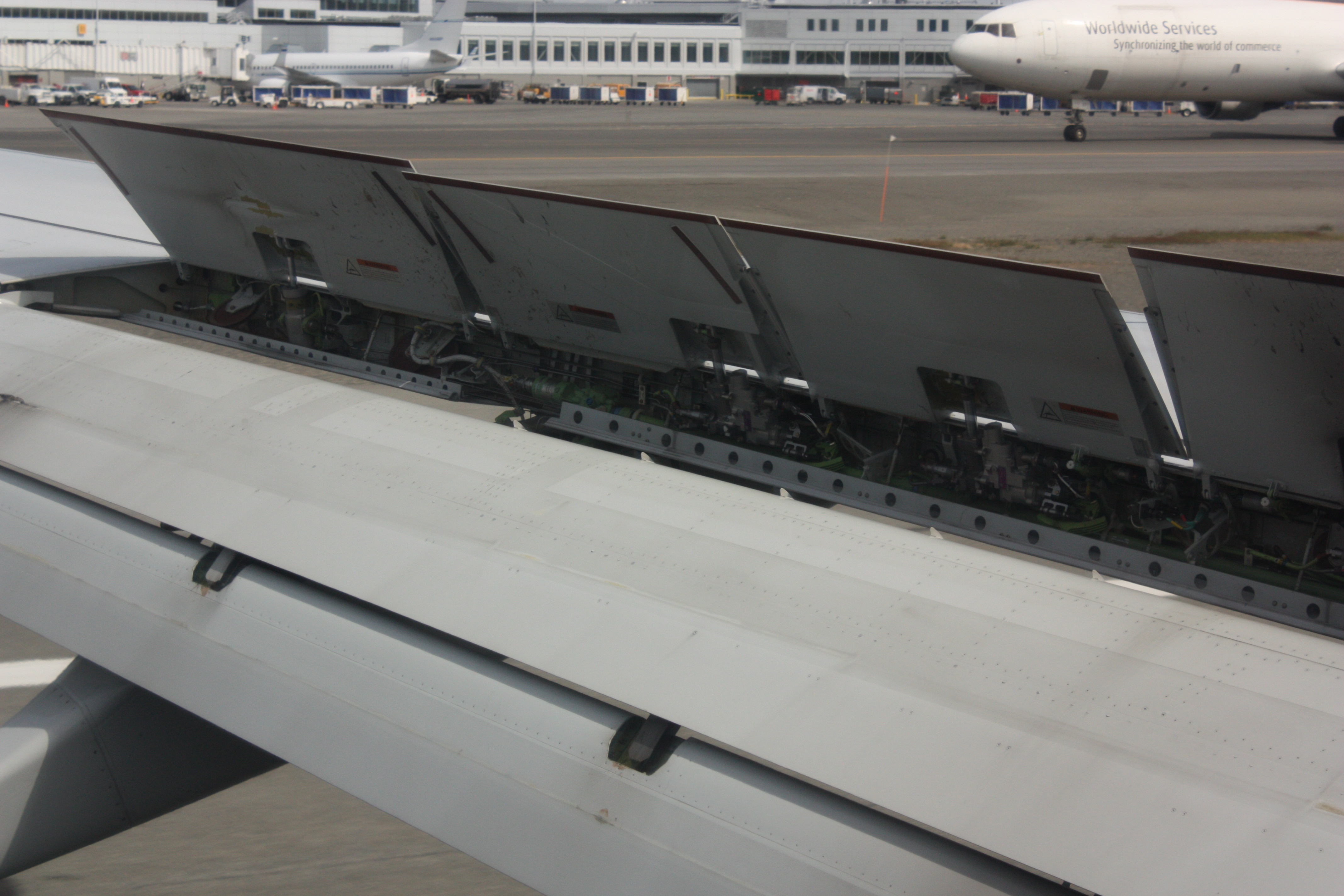 Spoilers Boeing 737